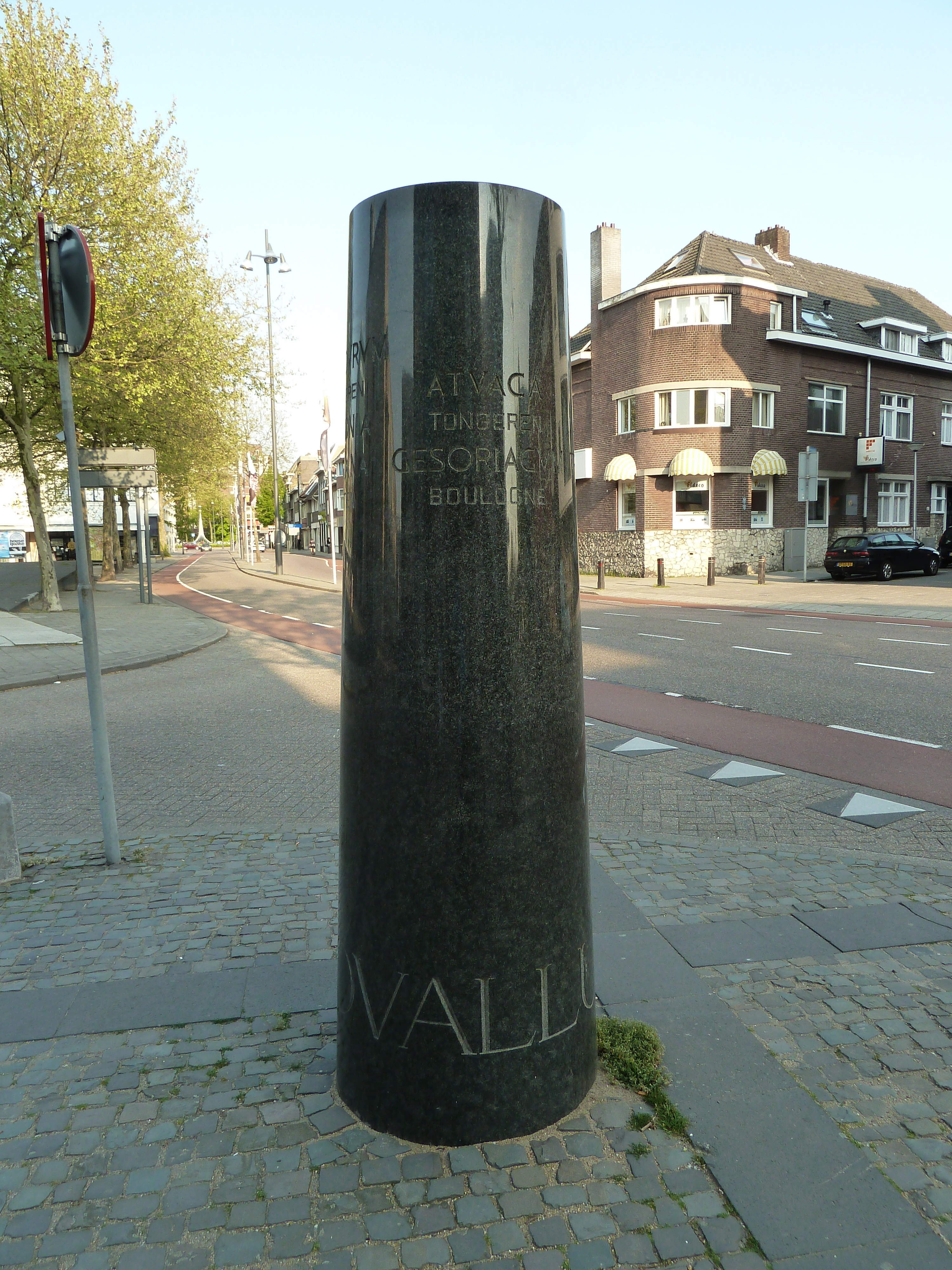 Border stone Raadhuisplein, Heerlen, Limburg, the Netherlands